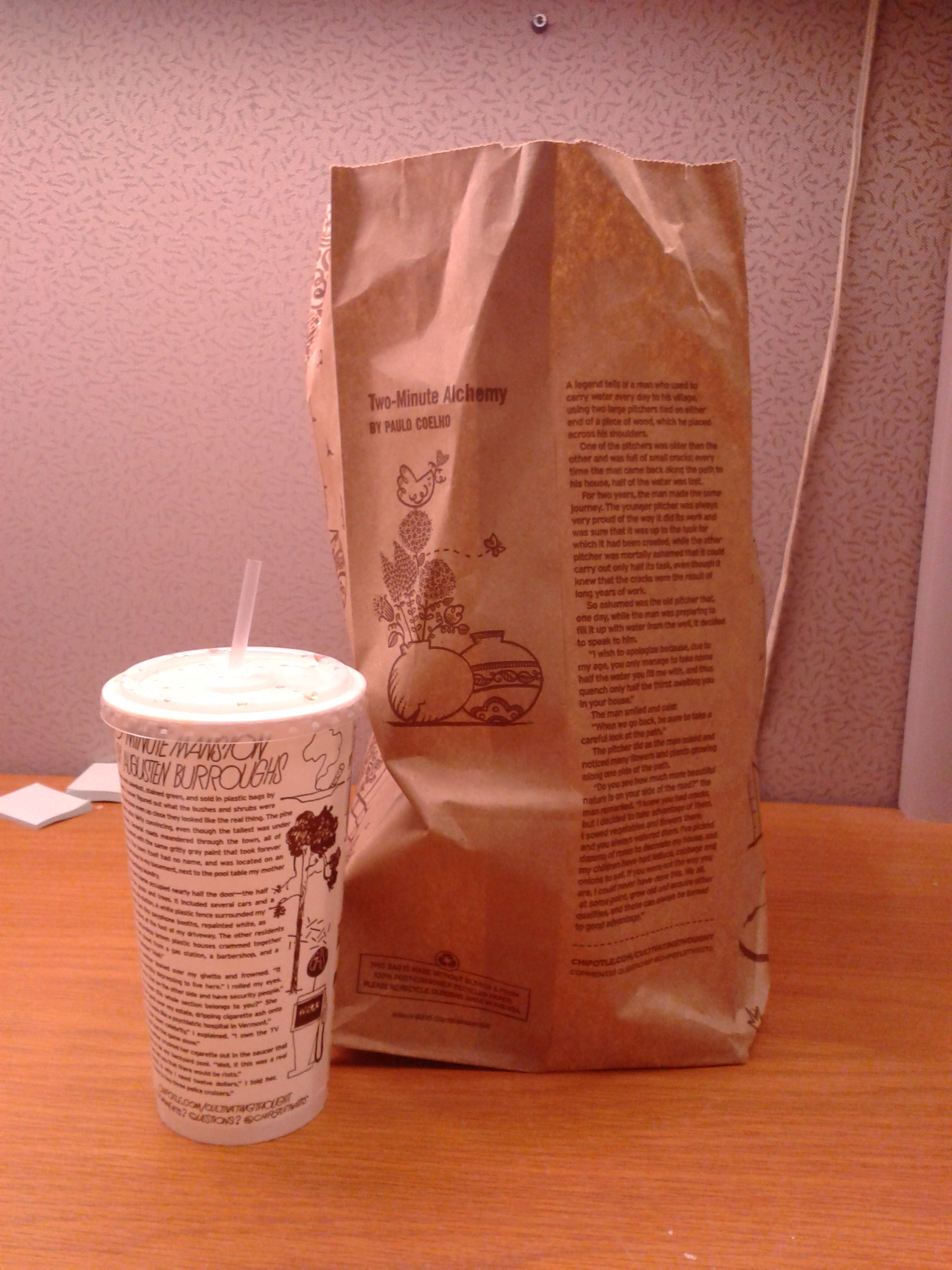 Cup and bag from Chipotle, with text from Paulo Coelho